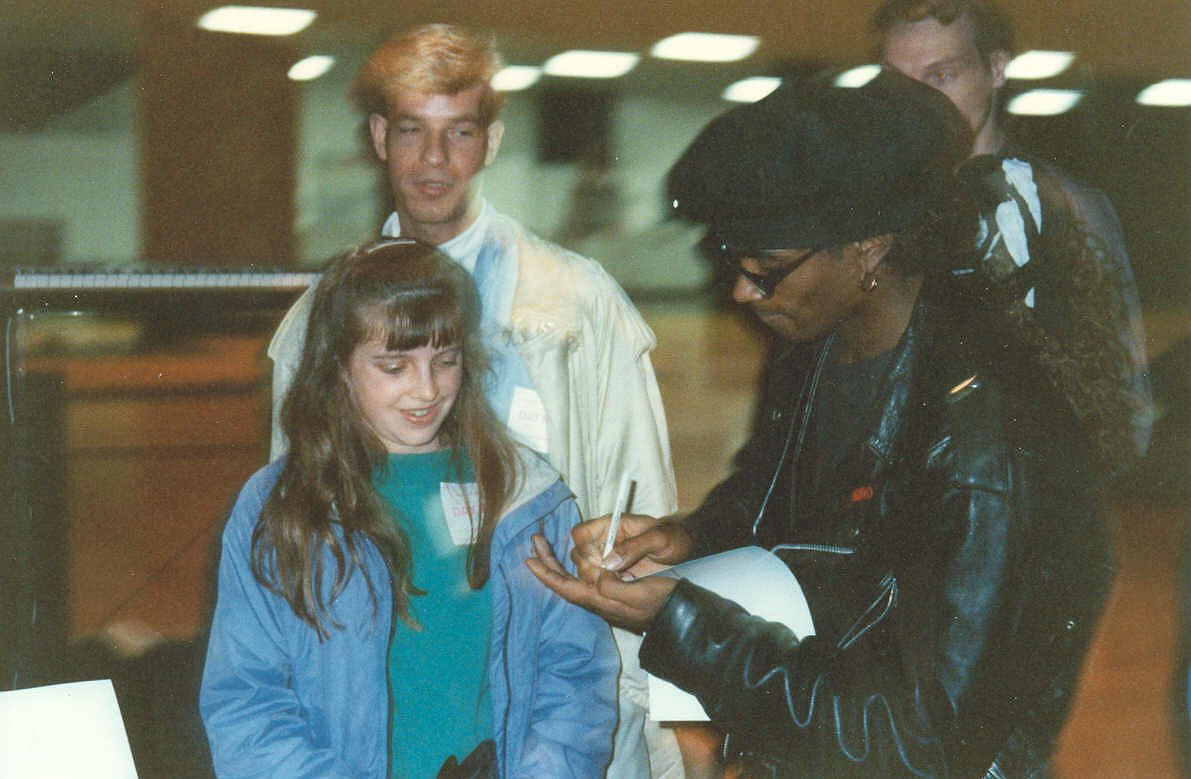 Fab Morvan of Milli Vanilli signs an autograph at Grammy rehearsal 2/20/90 - Permission granted to copy, publish, broadcast or post but please credit "photo by Alan Light" if you can